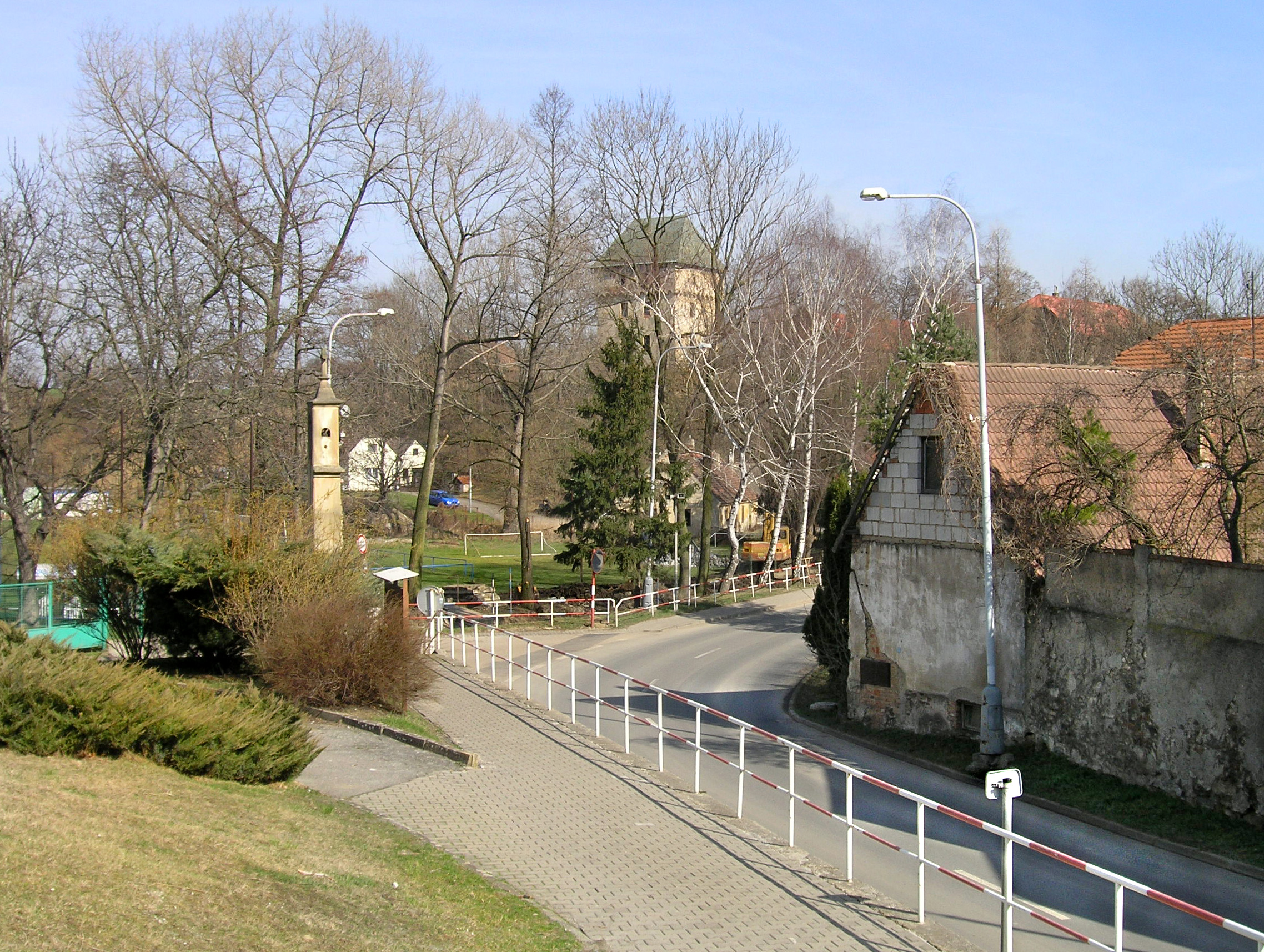 K Uhříněvsi street at Královice, Prague